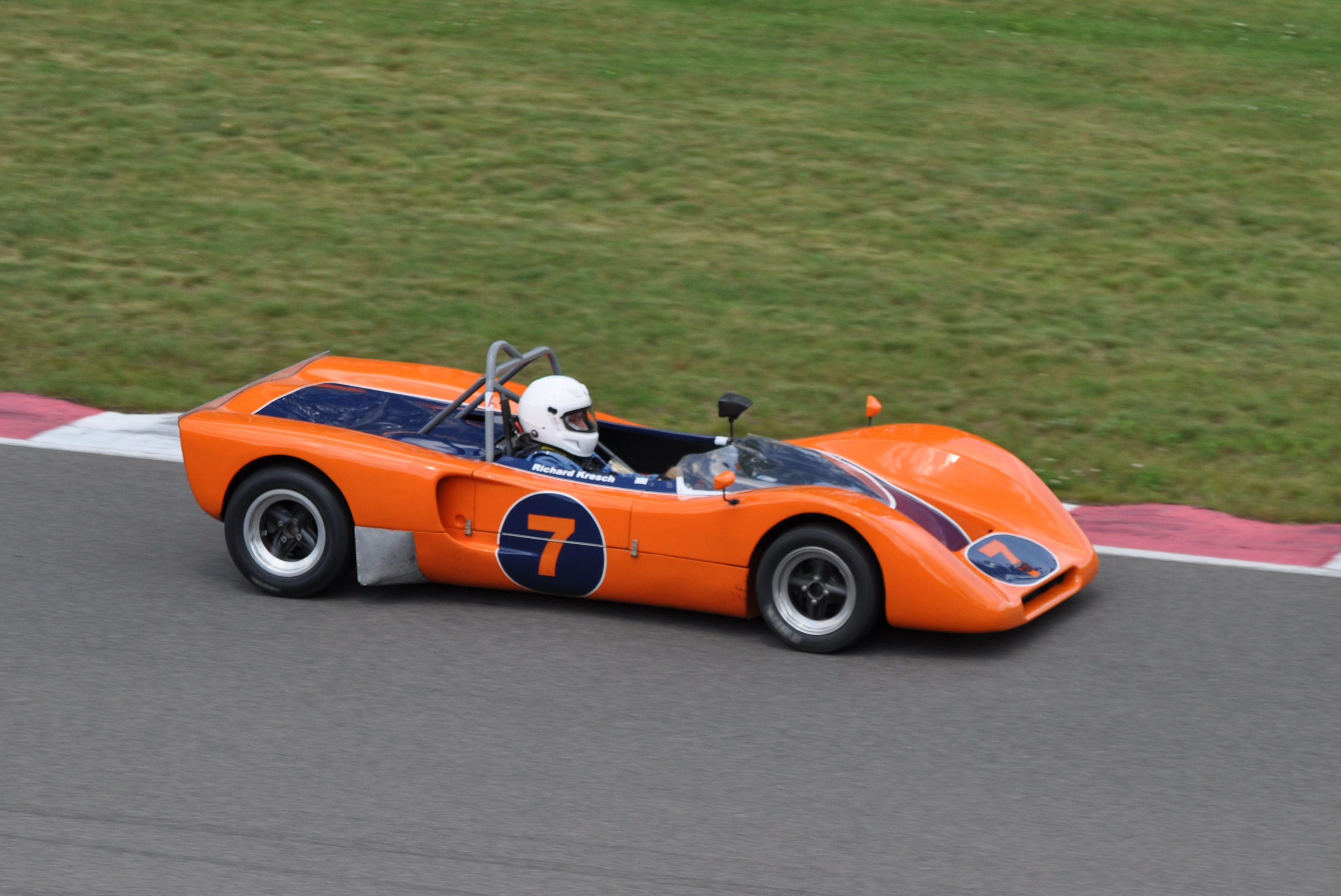 A Royale RP4 sports racing car descends from the Namerow corner, at Circuit Mont-Tremblant during the 2010 Legends of Motorsport meeting.